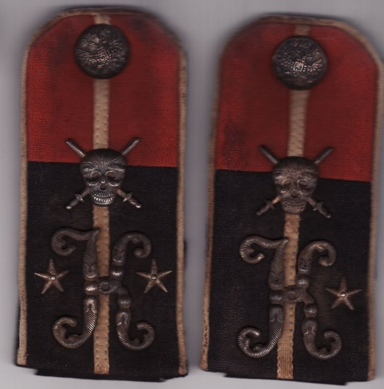 Pair of shoulder marks of Kornilov storm regiment (second lieutenant, with inverted red/black color - possibly due to civil war chaos). Russian army. WWI or Russisan civil war. 1917-1920.